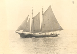 Photograph of the United States Revenue Cutter Dobbin, a training vessel for future officers of the U.S. Revenue Cutter Service